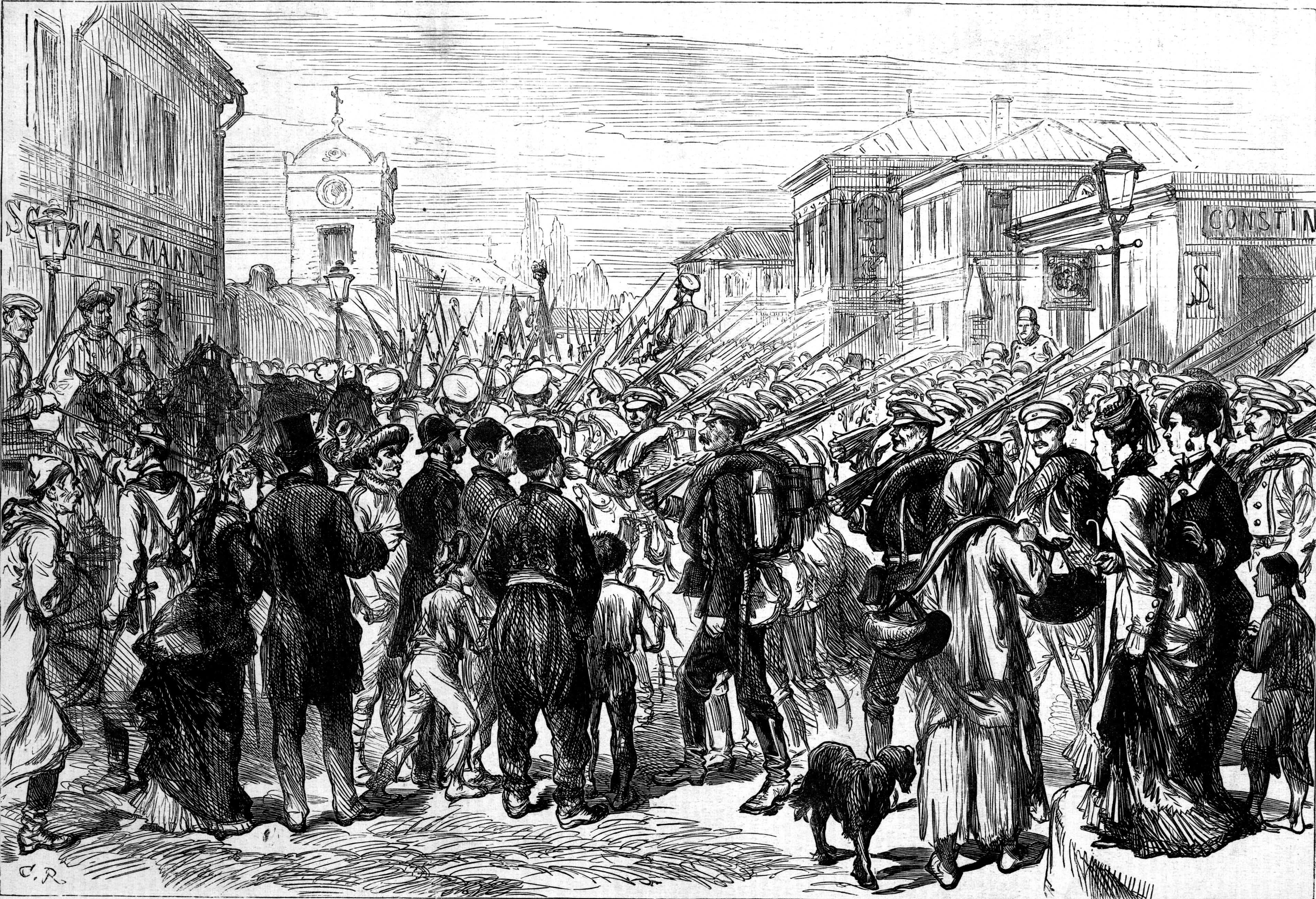 Russian Army in Bucharest, 1877. This would be during one of the Russo-Turkish wars, part of which was the Romanian War of Independence. The War: Russian Imperial guard passing through Bucharest